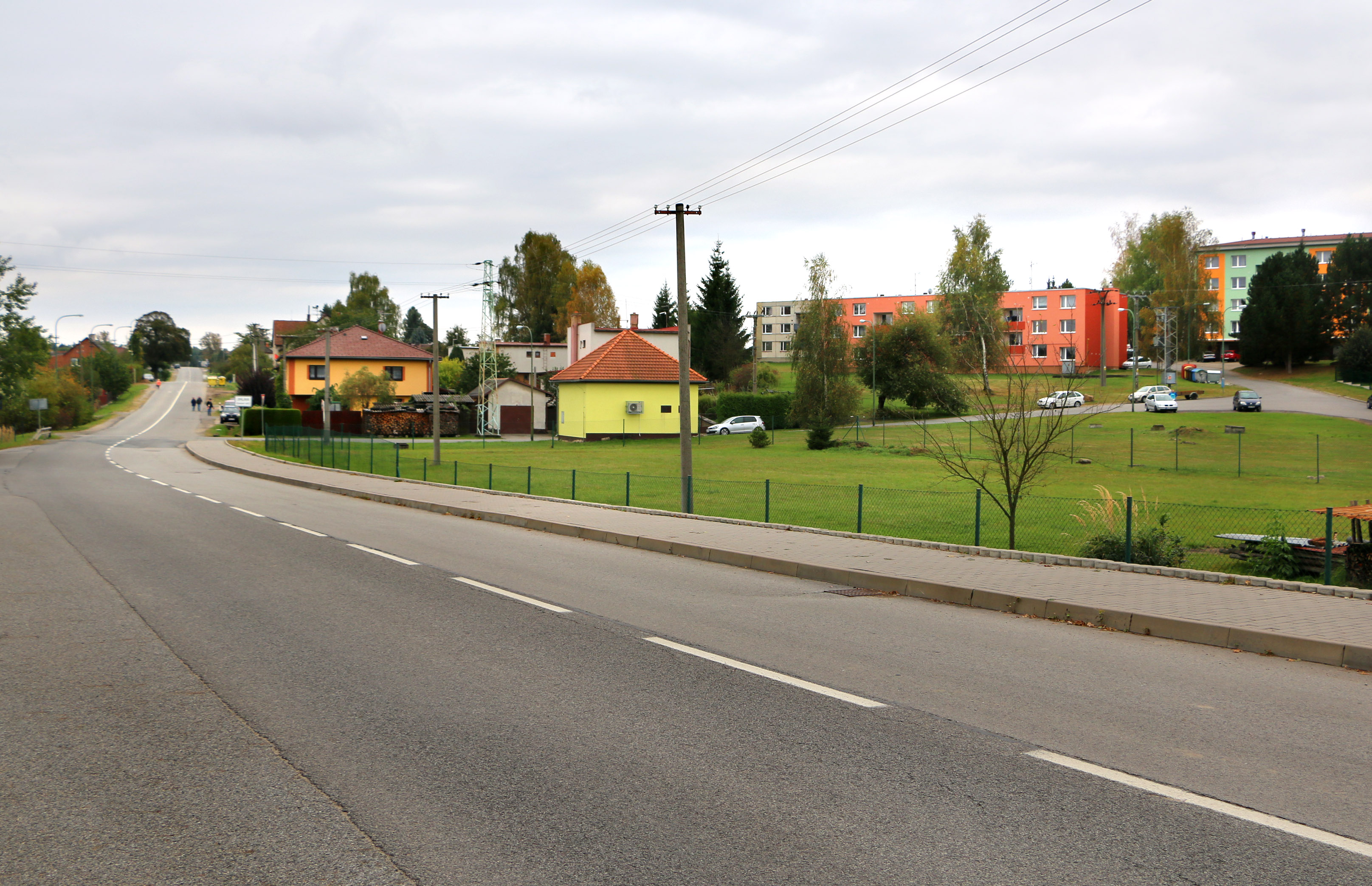 Main street in Antonínův Důl, part of Jihlava, Czech Republic.